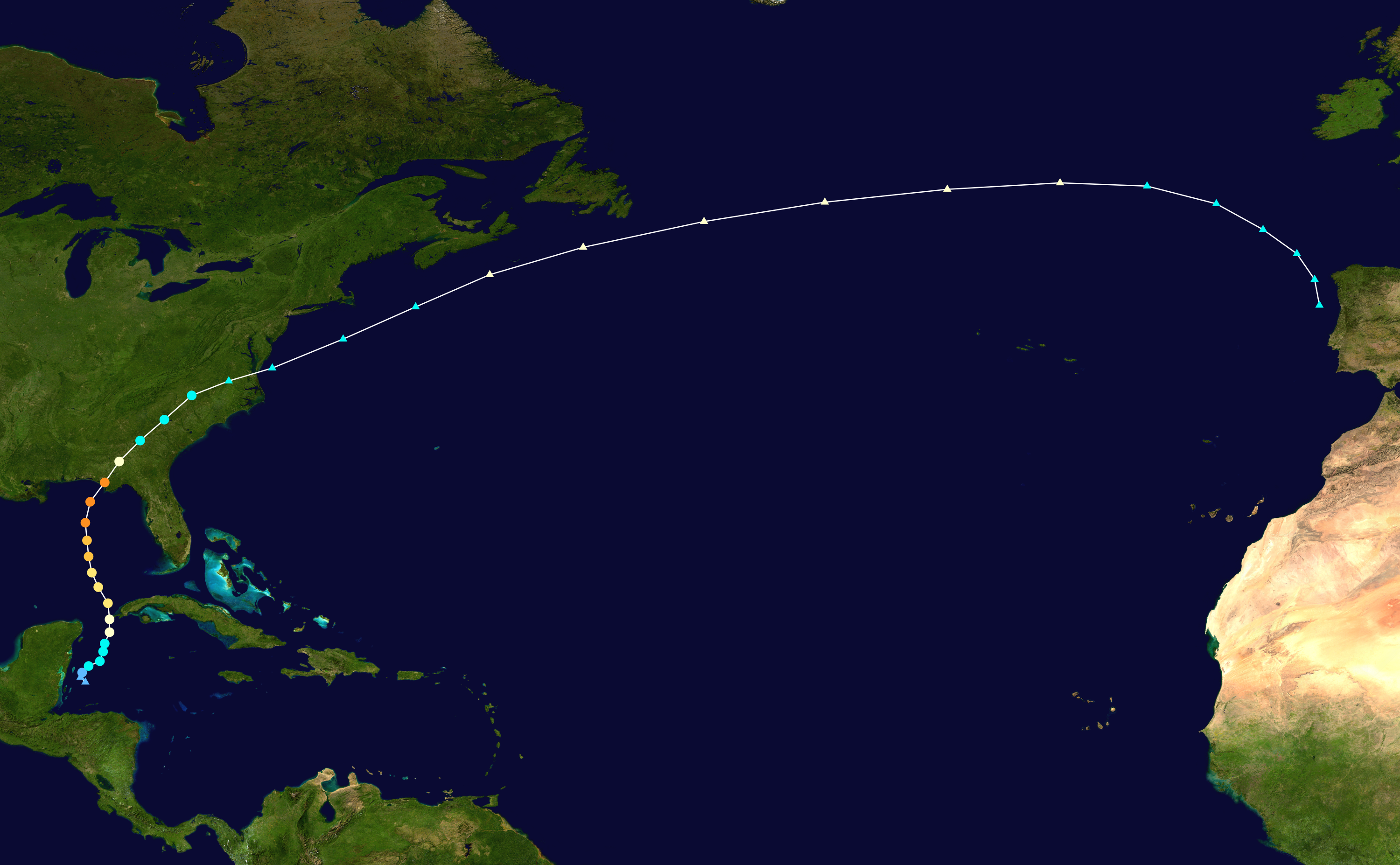 Track map of Hurricane Michael of the 2018 Atlantic hurricane season. The points show the location of the storm at 6-hour intervals. The colour represents the storm's maximum sustained wind speeds as classified in the Saffir–Simpson scale (see below), and the shape of the data points represent the nature of the storm, according to the legend below. Saffir–Simpson scale Tropical depression≤38 mph≤62 km/h Category 3111–129 mph178–208 km/h Tropical storm39–73 mph63–118 km/h Category 4130–156 mph209–251 km/h Category 174–95 mph119–153 km/h Category 5≥157 mph≥252 km/h Category 296–110 mph154–177 km/h Unknown Storm type Tropical cyclone Subtropical cyclone Extratropical cyclone / Remnant low / Tropical disturbance / Monsoon depression